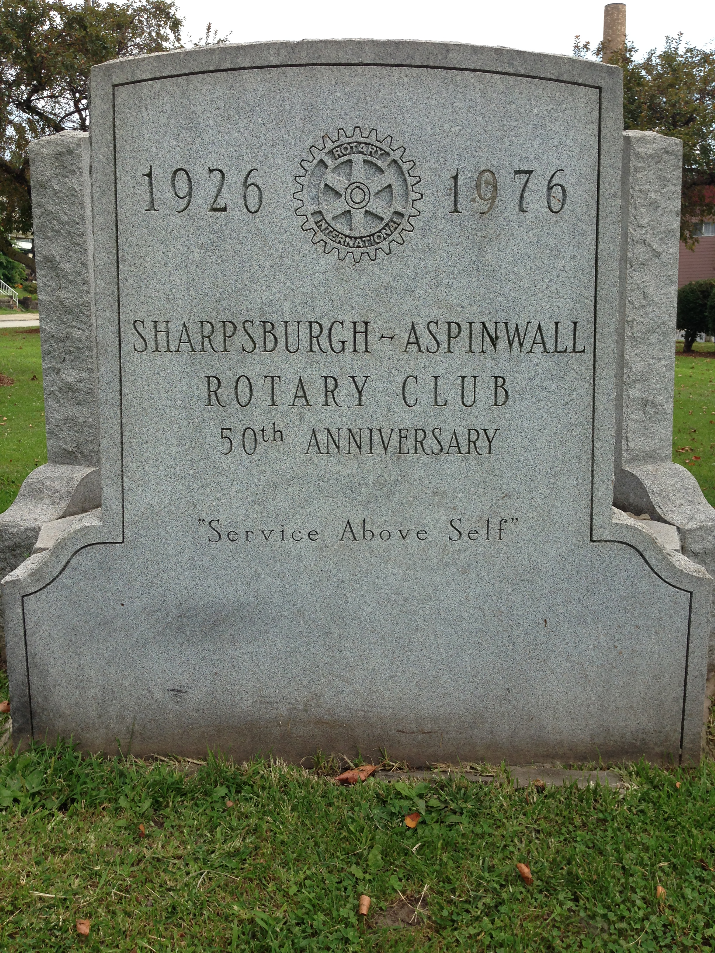 Memorial at Kennedy Park (4).